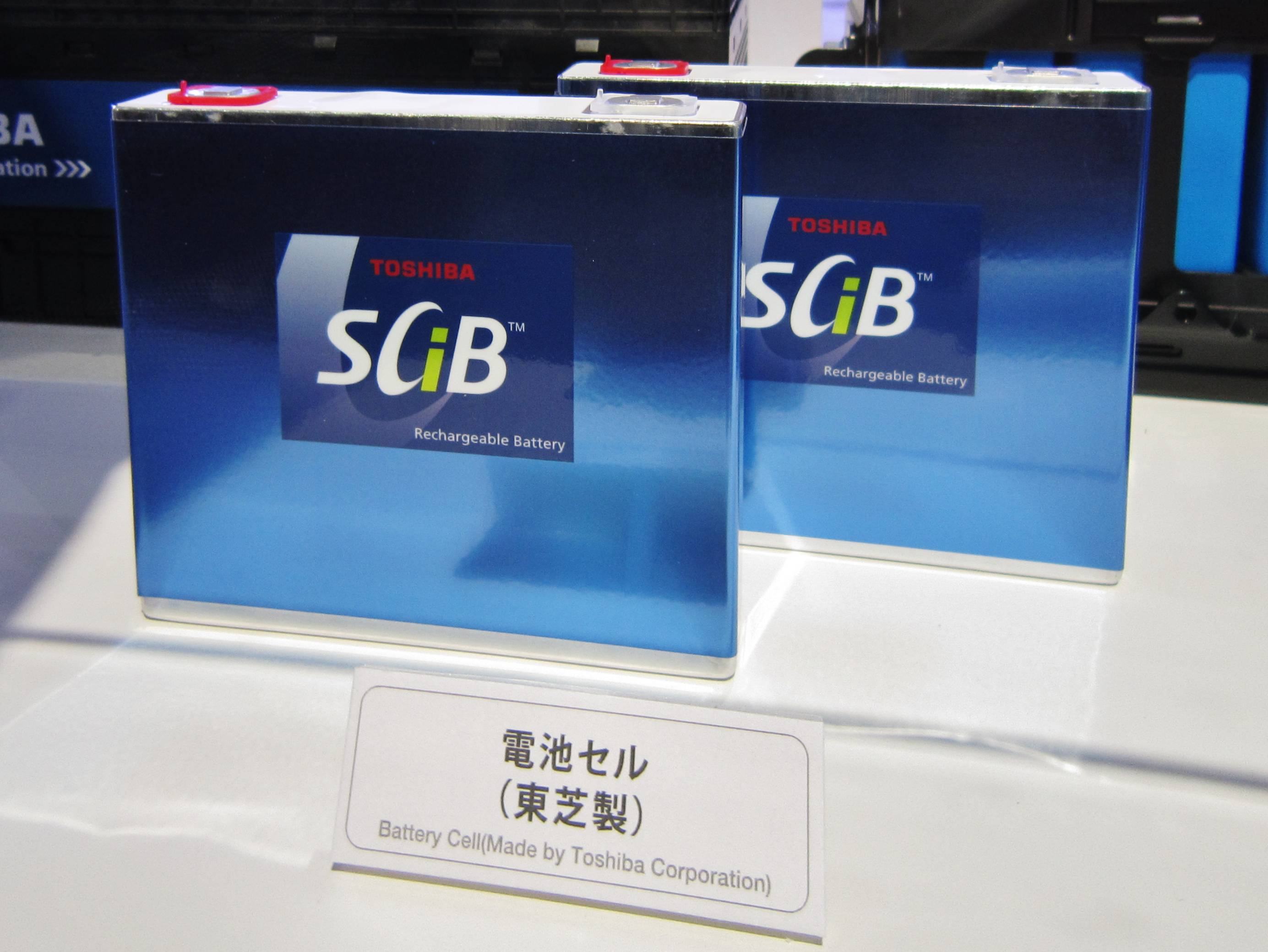 Toshiba SCiB cell in Tokyo Motor Show 2011.